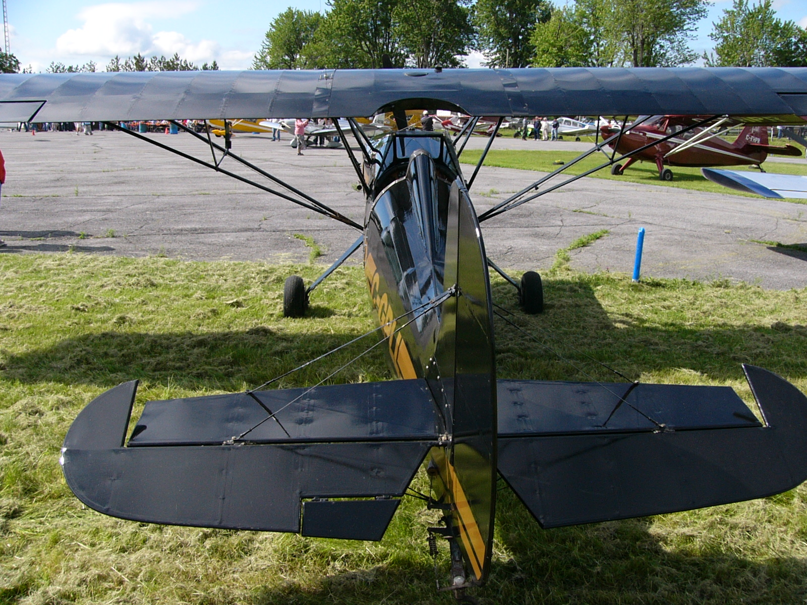 Bakeng Deuce (later called the Deuce) amateur-built aircraft at the Cornwall, Ontario, Canada Fly-in.